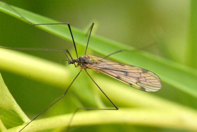 Dactylolabis transversa from Commanster, Belgian High Ardennes .